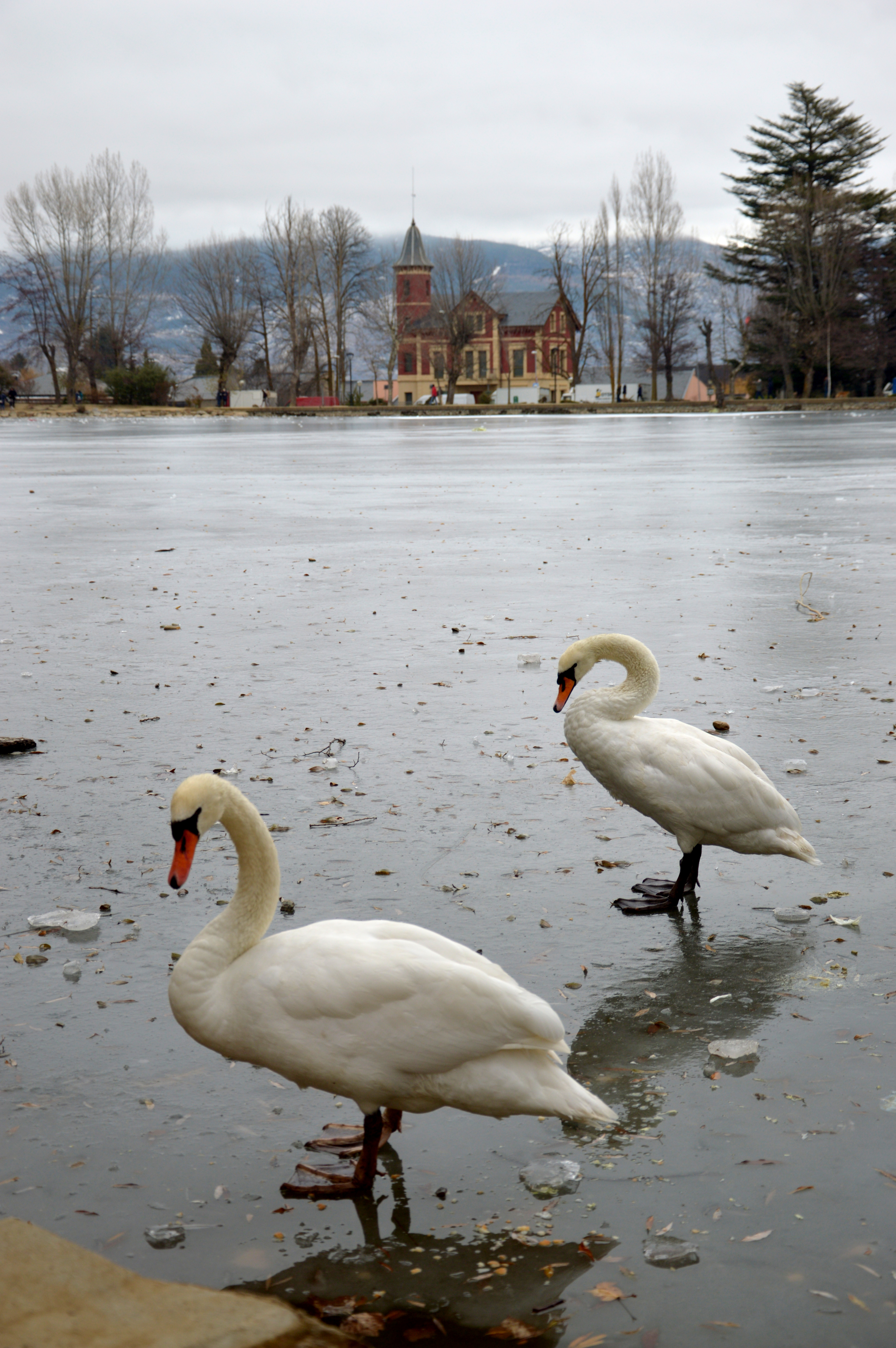 Swans on the frozen lake of Puigcerdà